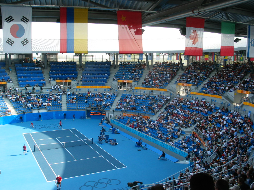 Olympic Tennis Court in Athens